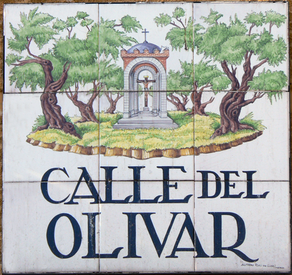 Sign of Calle del Olivar (street, Centro district) in Madrid (Spain).